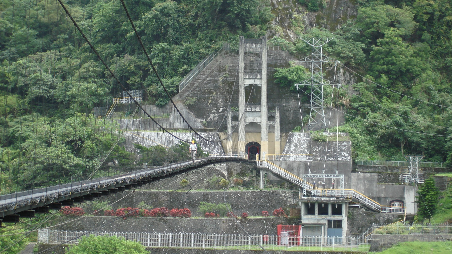 Taiwan power Company The Eastern Power plant Tong-Men Hydroelectricity Gate